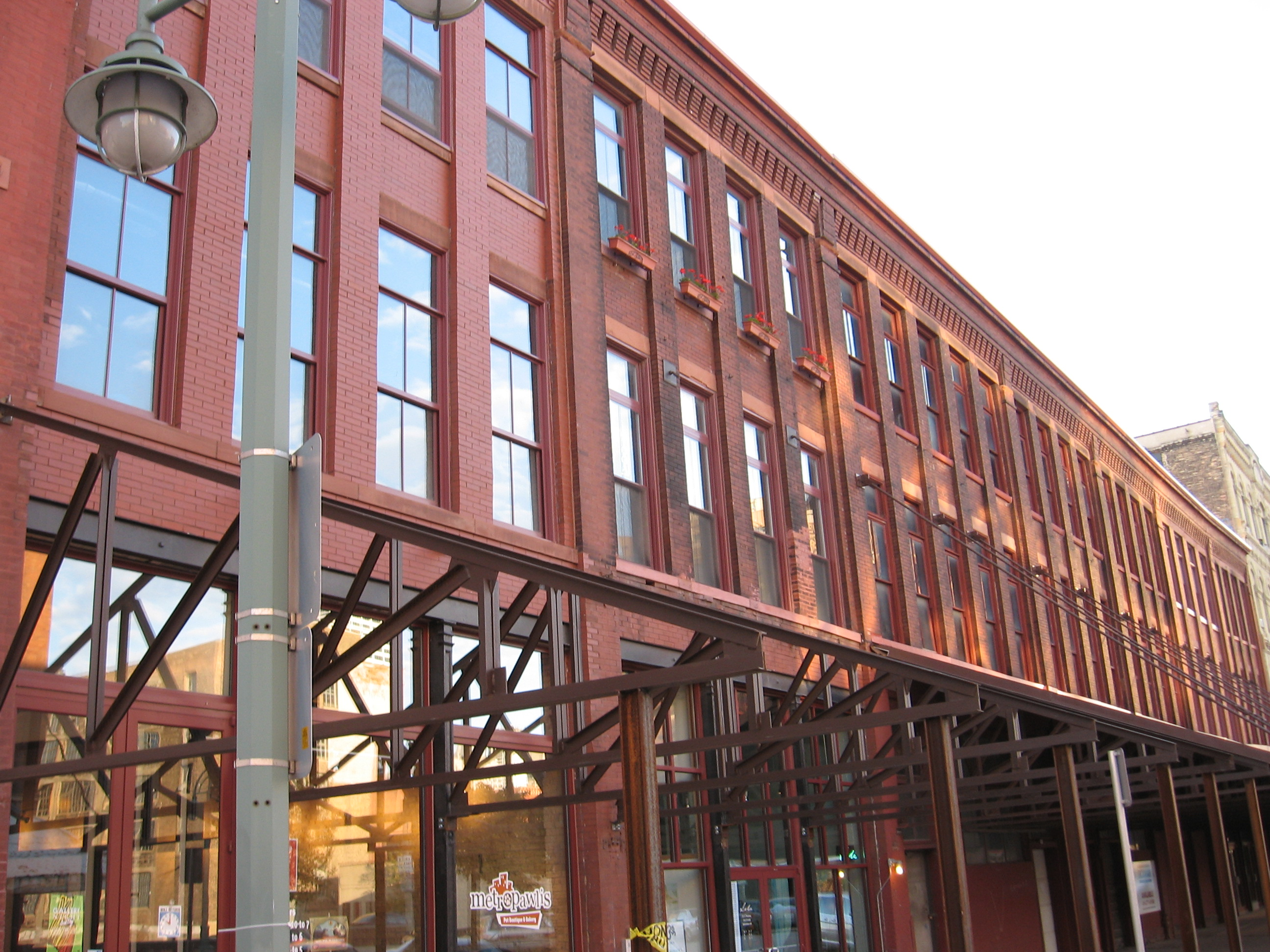 New lofts